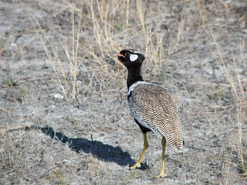 A White-quilled Bustard (Eupodotis afraoides) in Etosha, Namibia